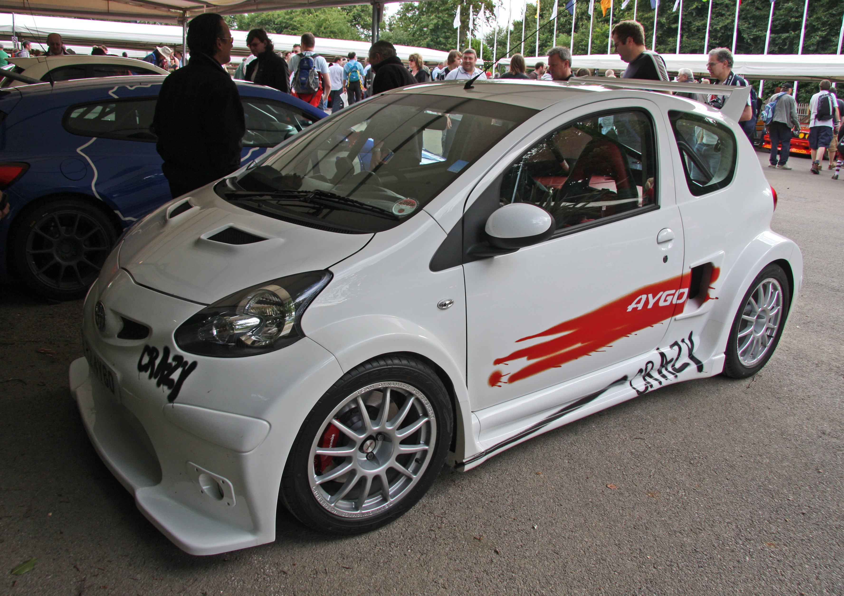 Built 2008. Mid-mounted turbocharged 1.8-litre, rear-wheel drive